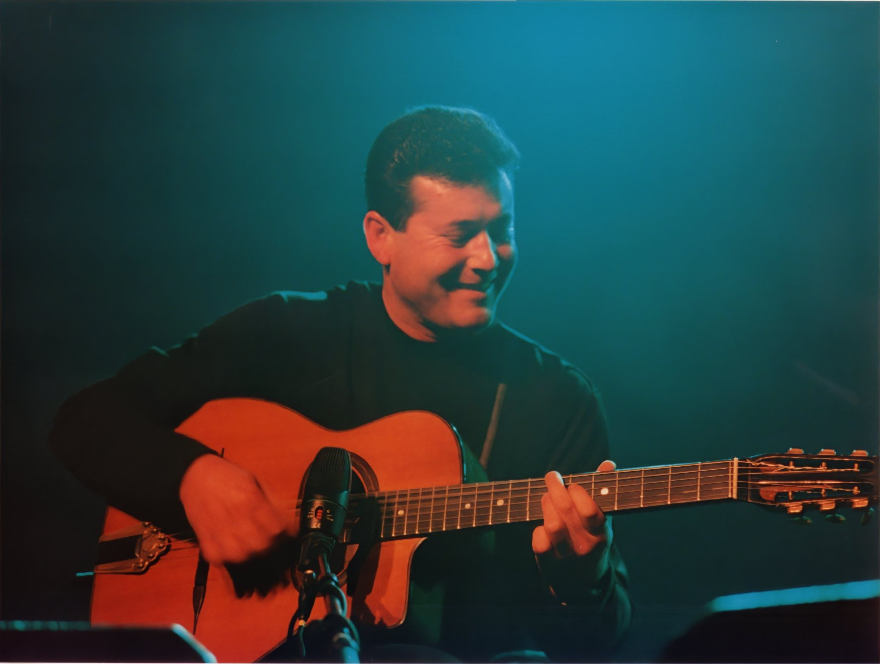 Nous'che Rosenberg, rhythm guitarist with the Rosenberg Trio (gypsy jazz trio) on stage at a show in the Netherlands, 2002 (Tony Rees photograph)